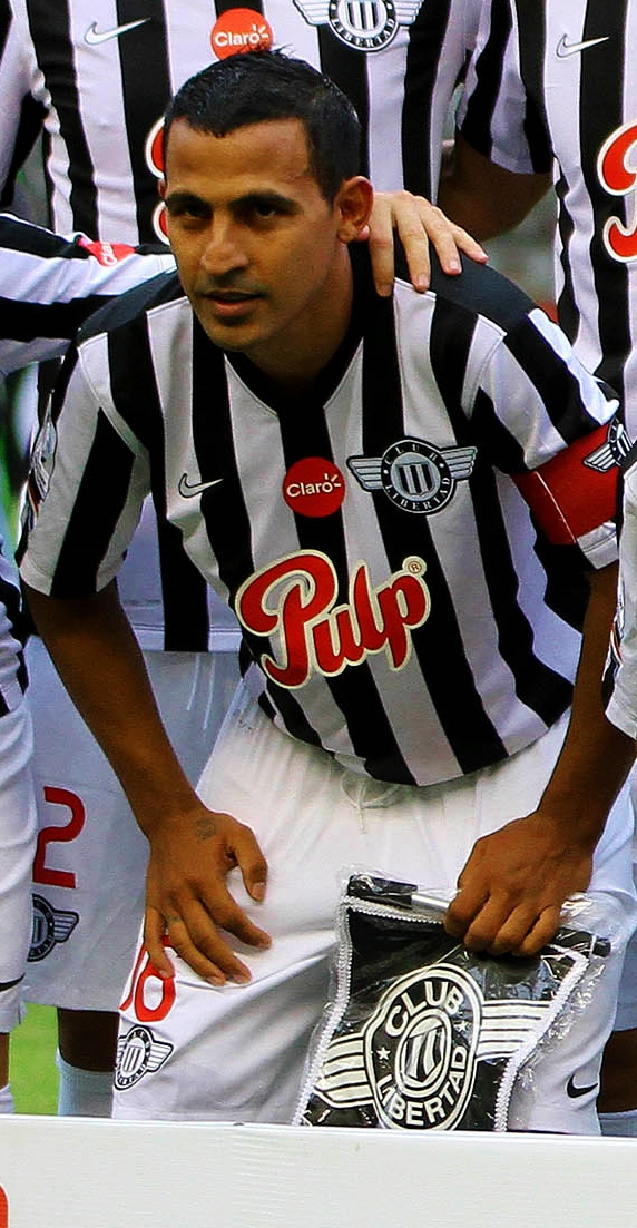 Sergio Aquino. Guayaquil, Martes 3 de marzo del 2015 (ANDES).-Libertad de Paraguay enfrenta al Barcelona de Ecuador en el partido jugado en el estadio Monumental por Copa LibertadoresFoto:César Muñoz/ANDES